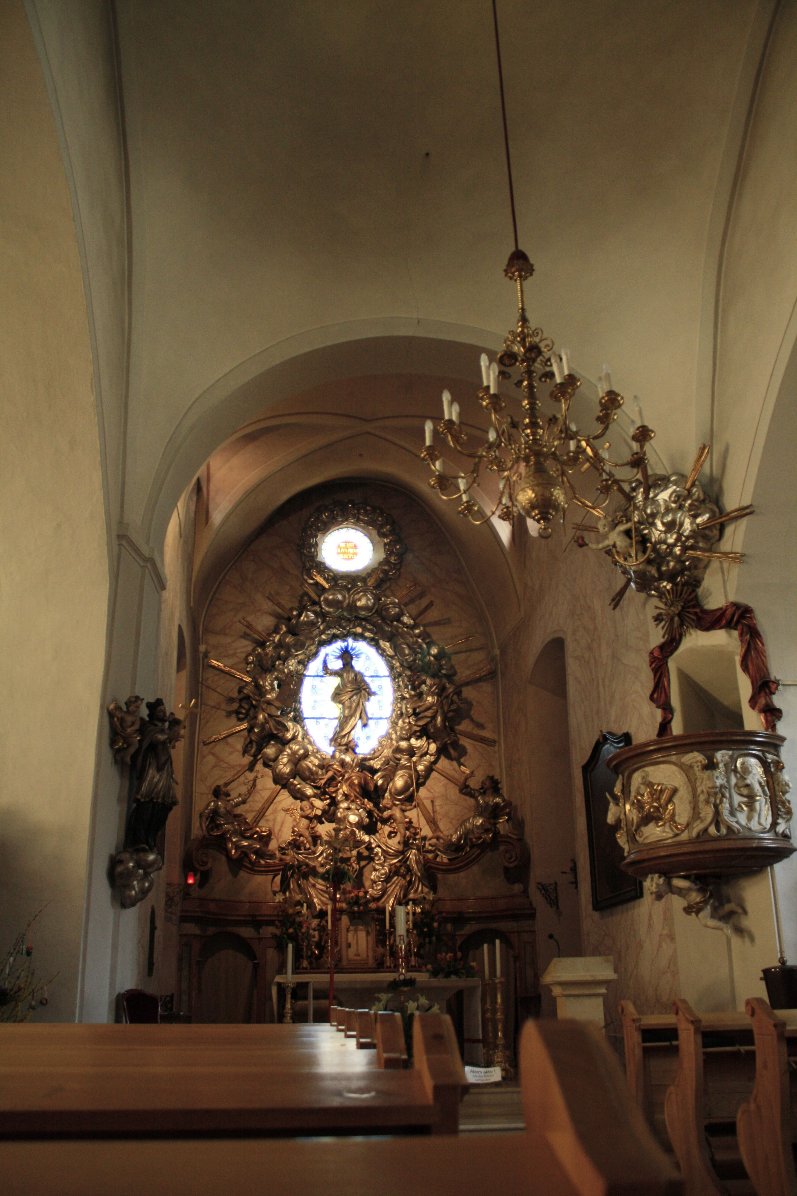 Inside of Church of in Niederösterreich. Hauptaltar von Giovanni Giuliani